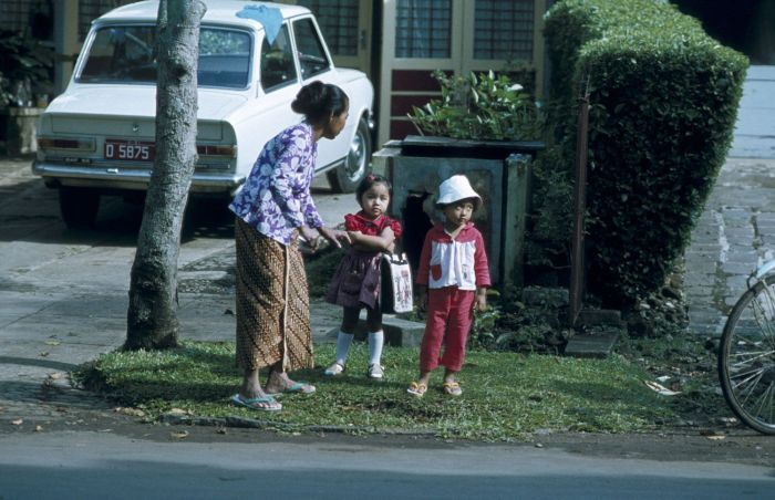 Bandung, 1980. Two schildren are brought to school by a nanny, a DAF 44 is parked in the background.